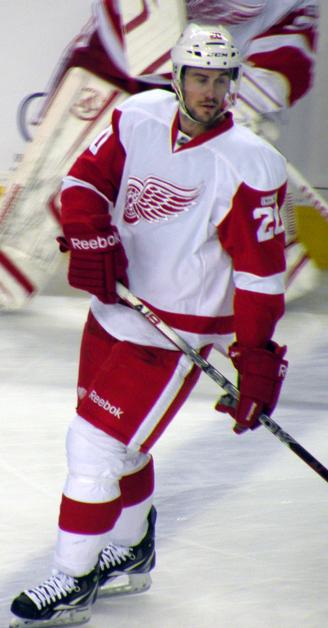 Detroit Red Wings forward Drew Miller prior to a National Hockey League game against the Calgary Flames.